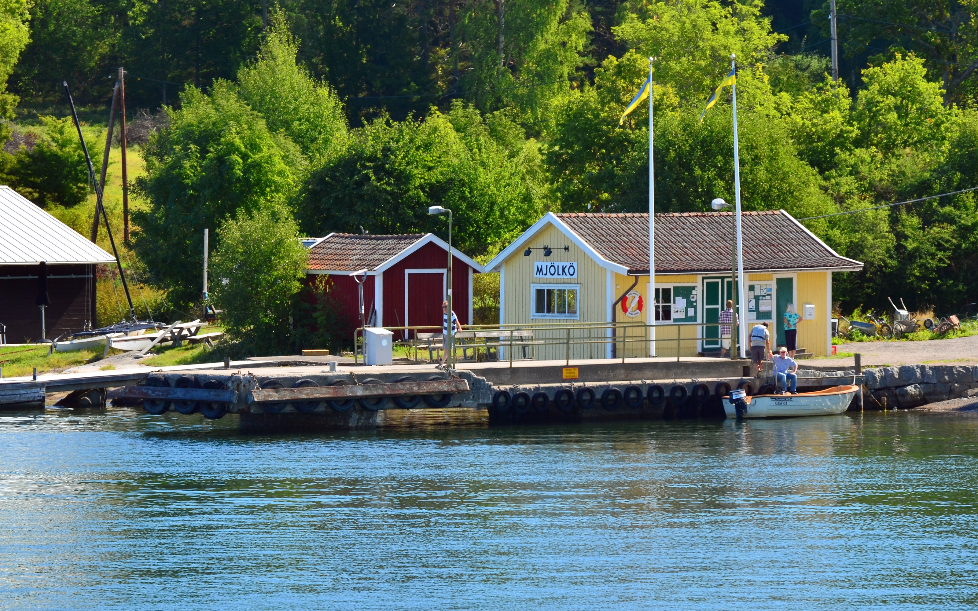 The jetty at Mjölkö (Milk island) outside Åkersberga.